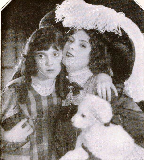 Still from the American drama film Reputation (1921) with Priscilla Dean, on page 56 of the August 1921 Photoplay.